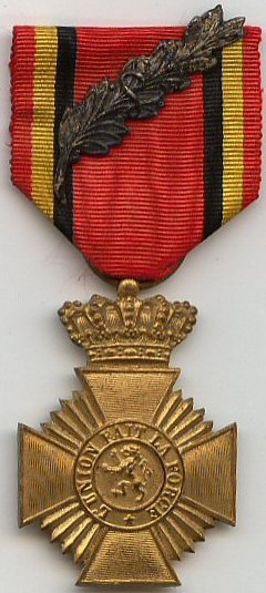 Military Decoration for Exceptional Service or Acts of Courage or Devotion 2nd class with war time palm (Belgium)